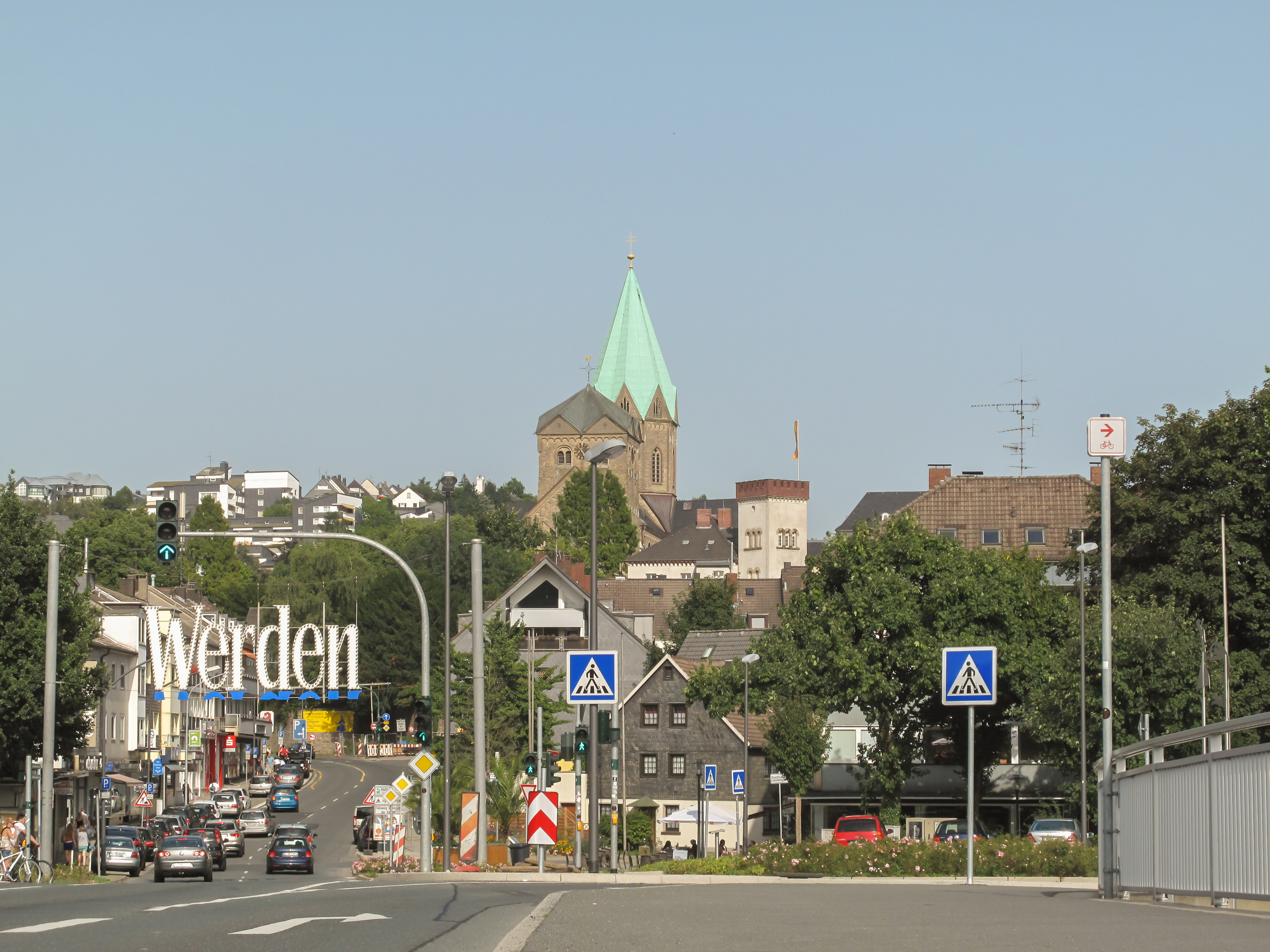 Werden, view to the town from bridge across river Ruhr